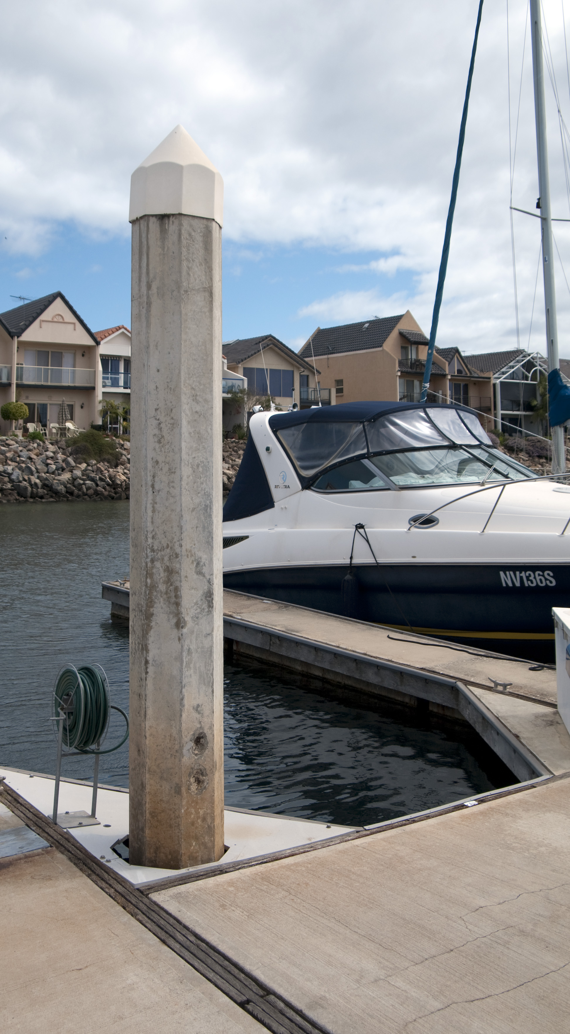 A floating dock at a private marina in Adelaide, South Australia.